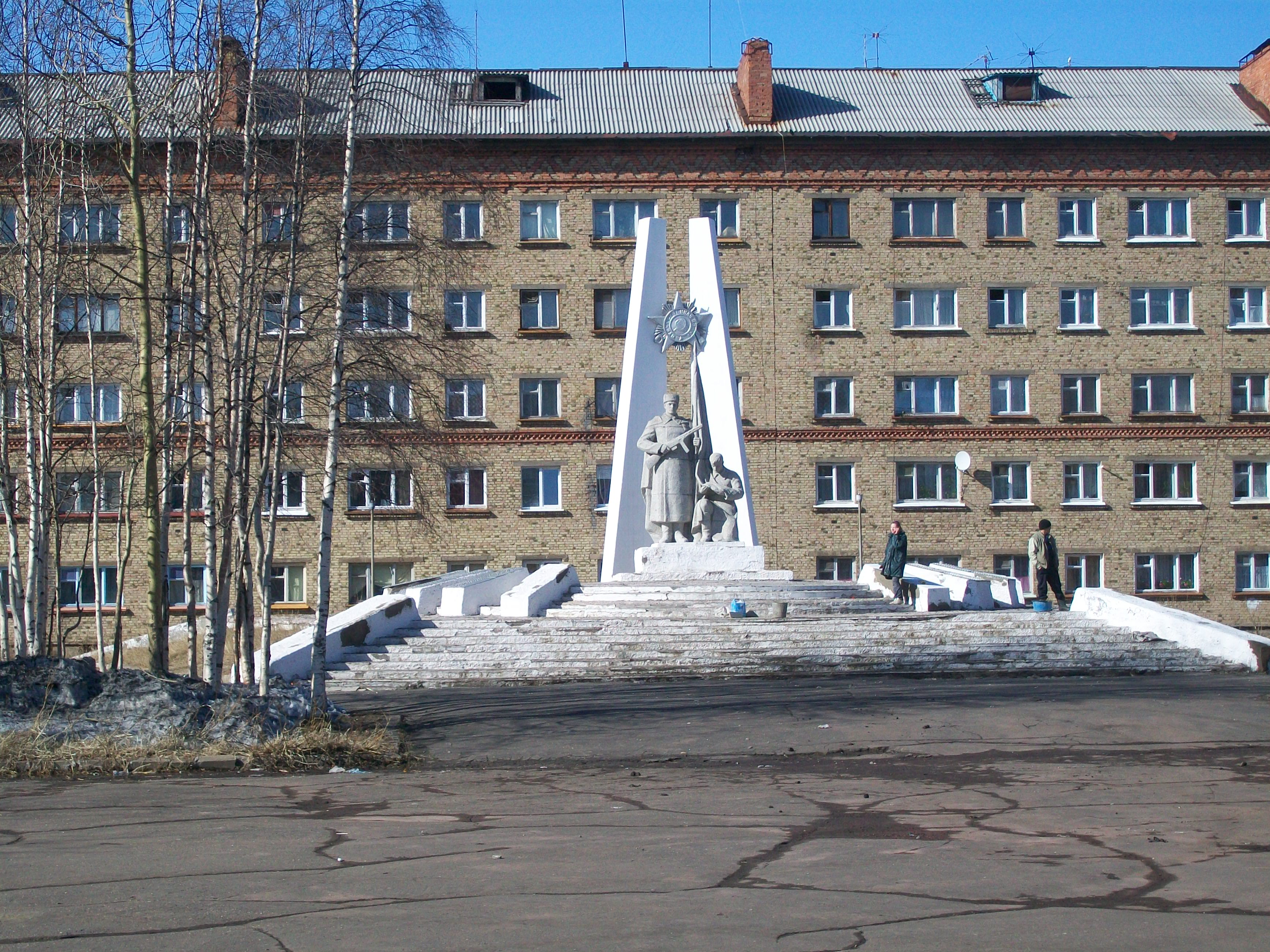 Old Square in Inta